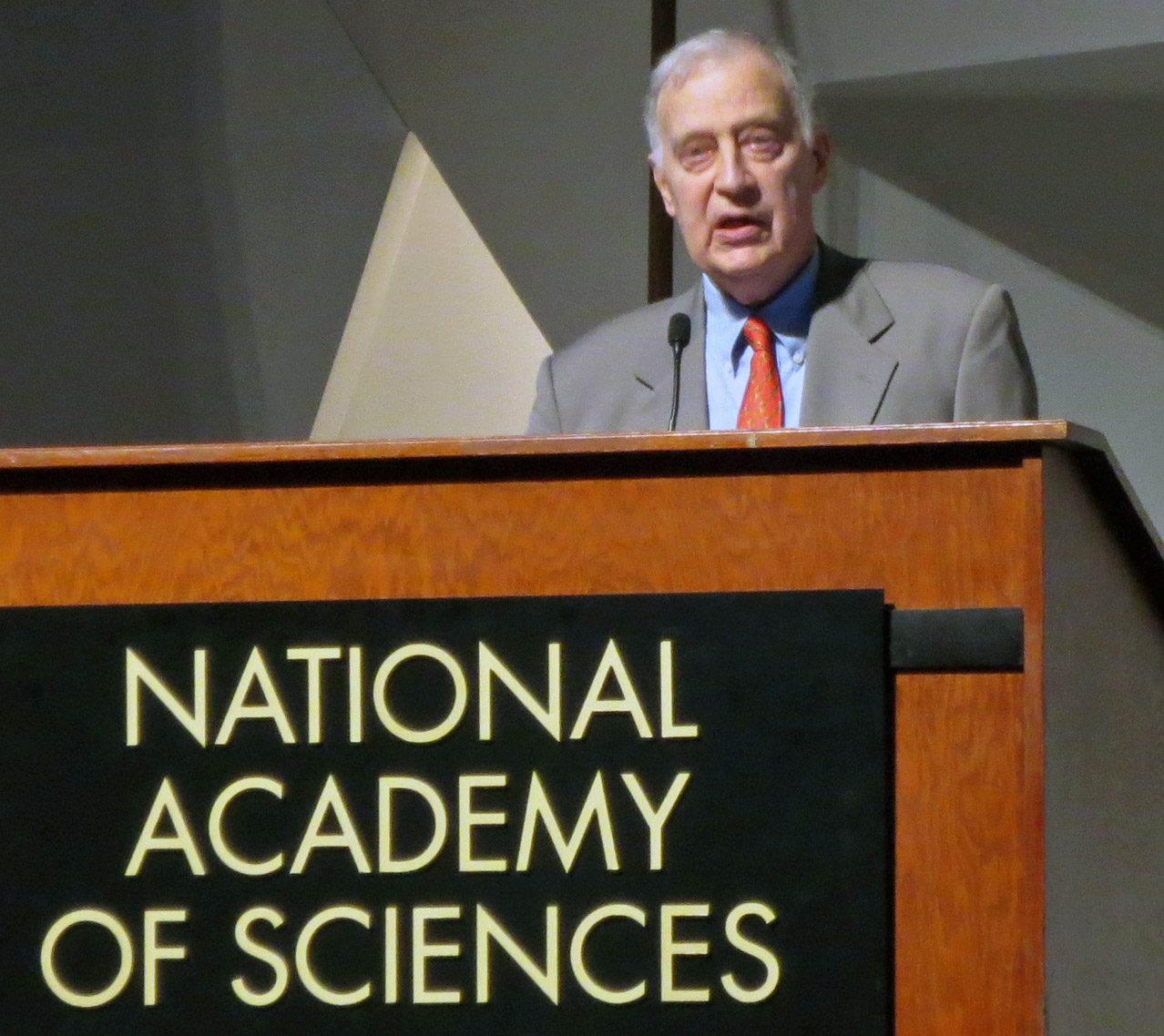 Dr. Ralph J. Cicerone, President, aNational Academy of Sciences. Speakers at the National Academy of Sciences conference on "Building Resilience to Catastrophic Risks Through Public-Private Partnerships."